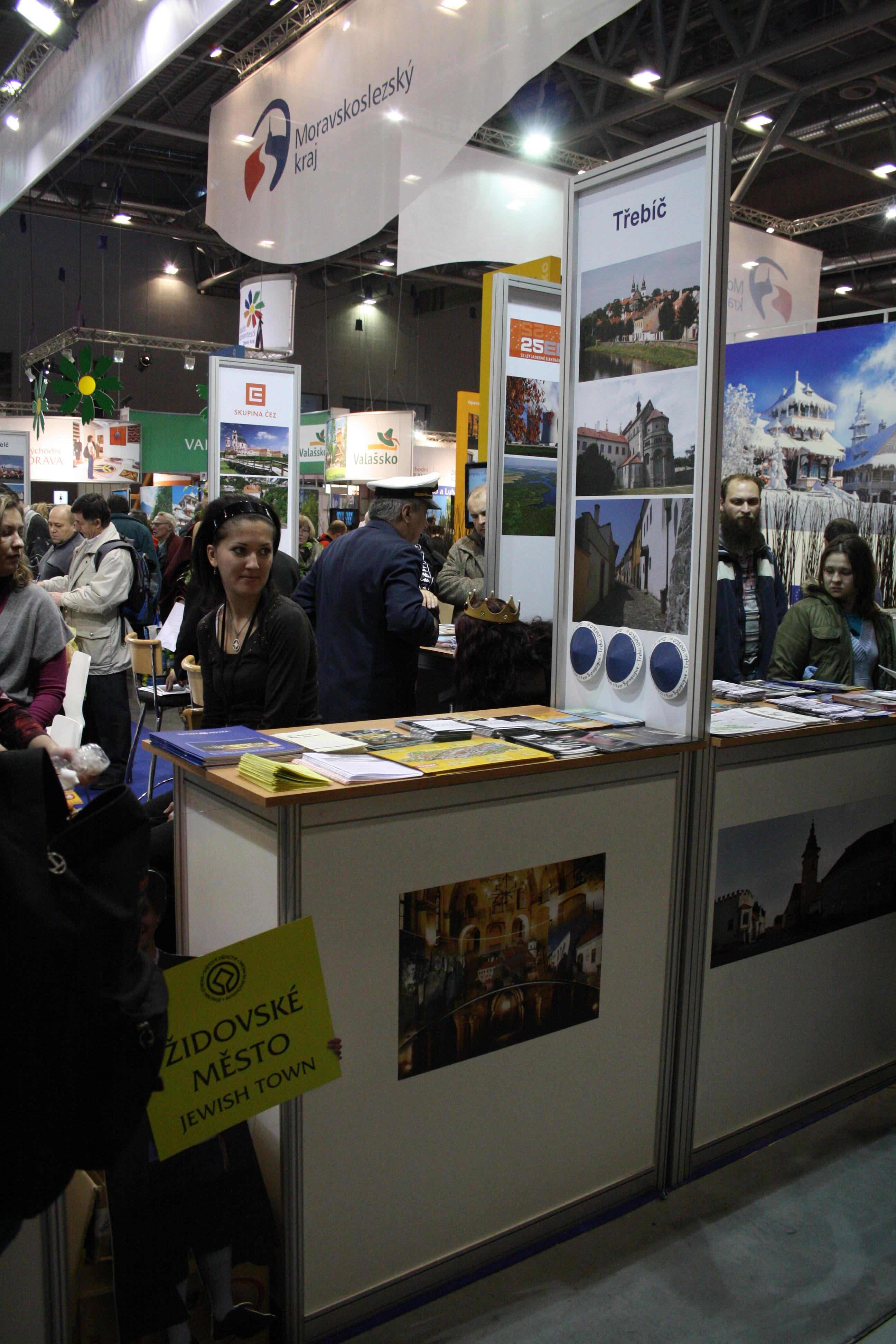 Presentation of various touristic destinations of Czech Republic.